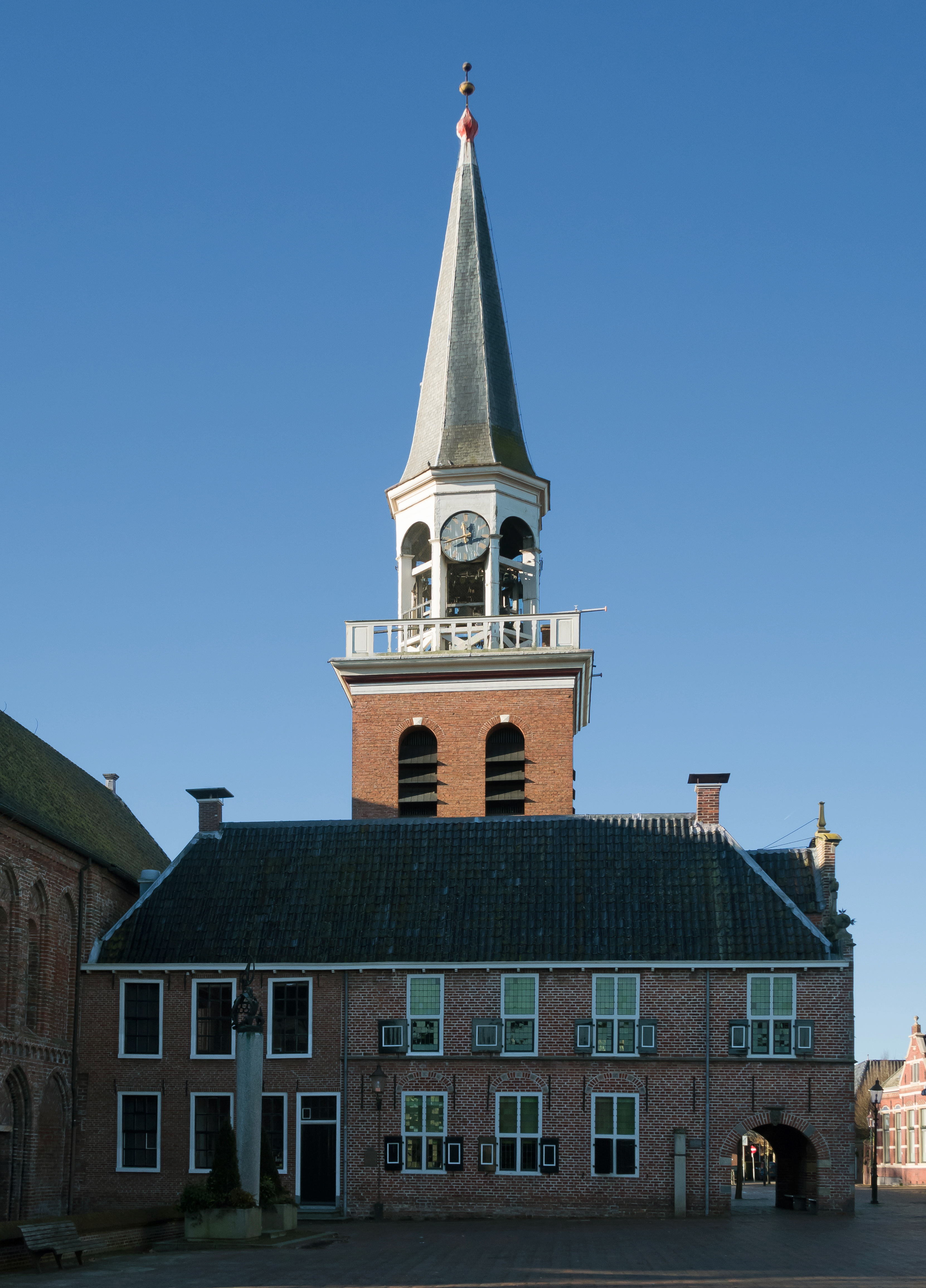 Appingedam, townhall and churchtower (de Nicolaïkerk)